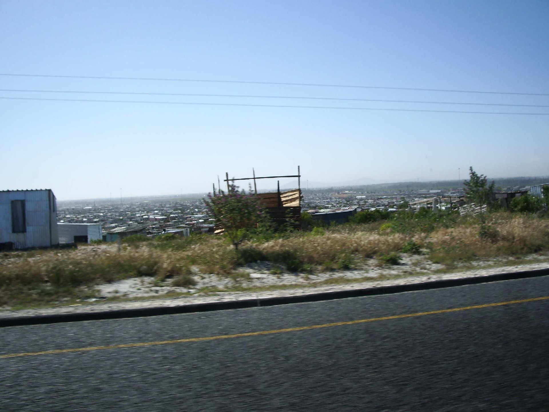 Hurkummer, Khayelitsha, South Africa, October 2005. I made the picture and I grant it under GFDL.